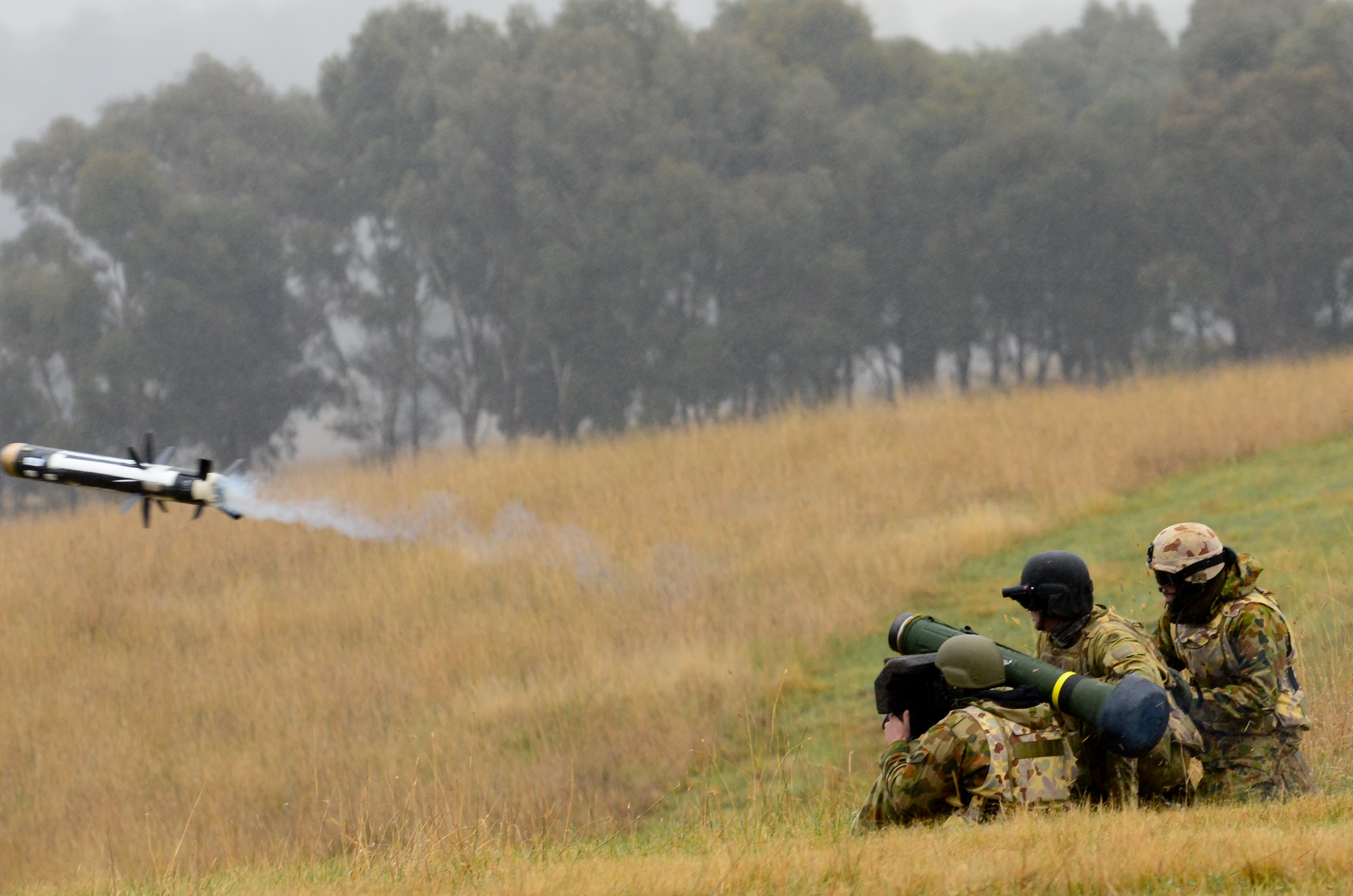 Australian Army soldiers launch a javelin missile during a firepower demonstration in 2011.